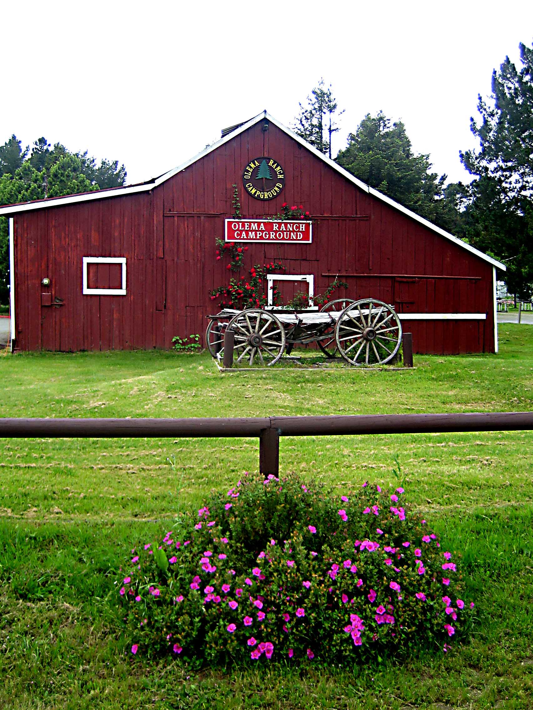 Olema Ranch near Point Reyes National Seashore, California, USA